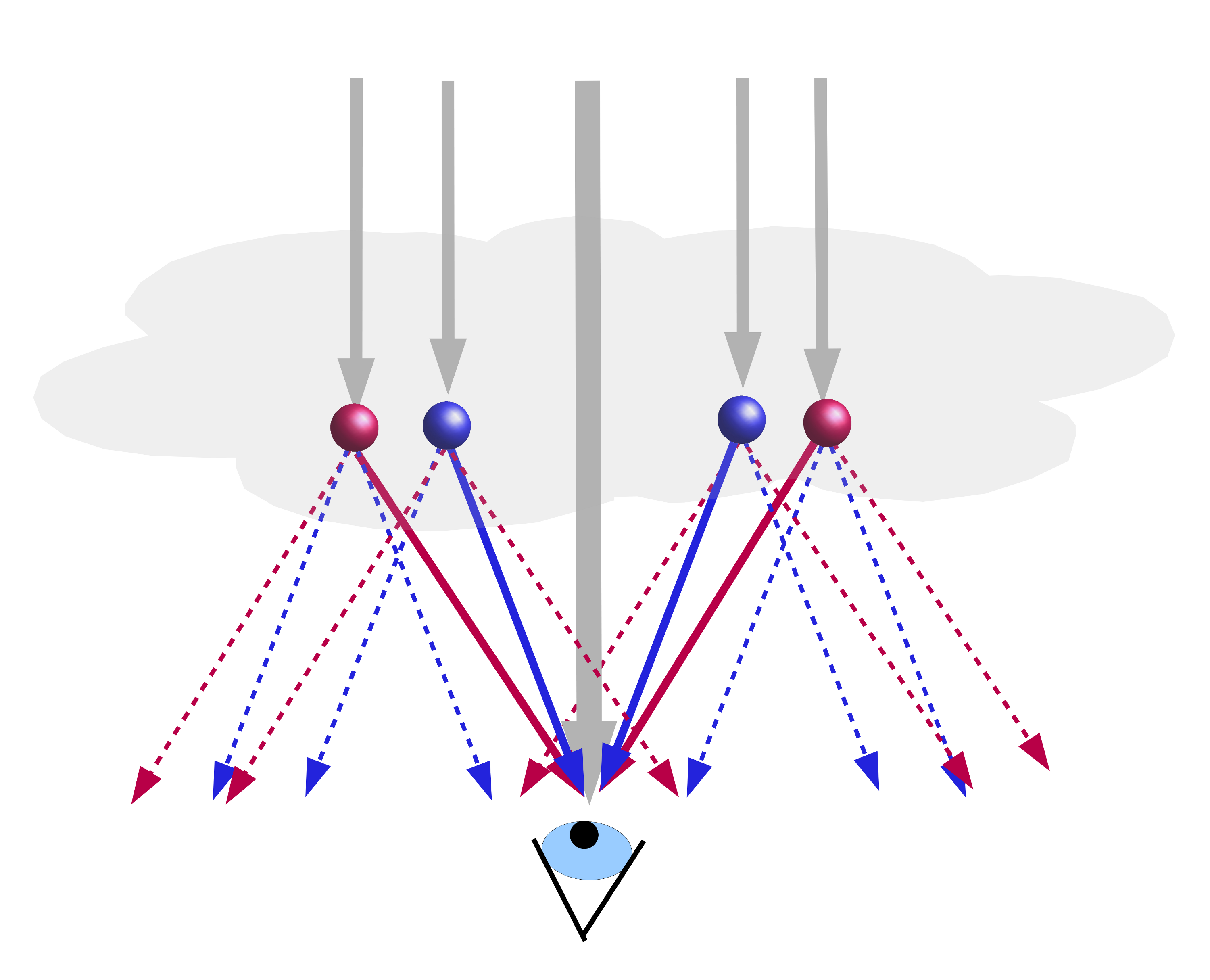 Corona around moon or sun resulted from light diffracted by waterdrops in the clouds. From each cone a person only views the light which reaches his eye. As red light has a greater diffraction angle than blue light, the red light one sees comes from a drop in a greater distance from the center of the corona than the blue light. So the red ring has a greater radius than the blue ring.